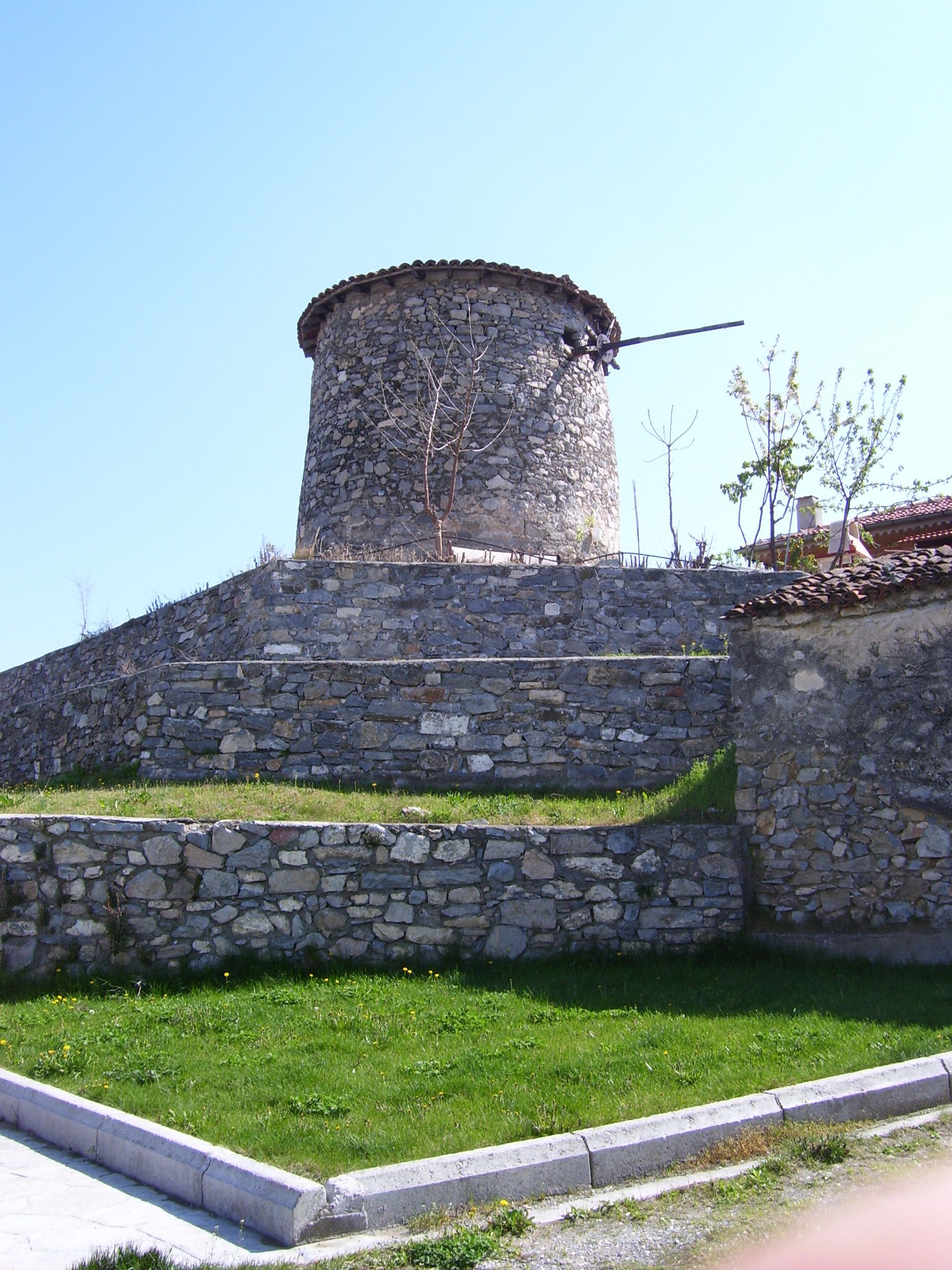 A windmill in the village of Agios Panteleimonas, Greece.